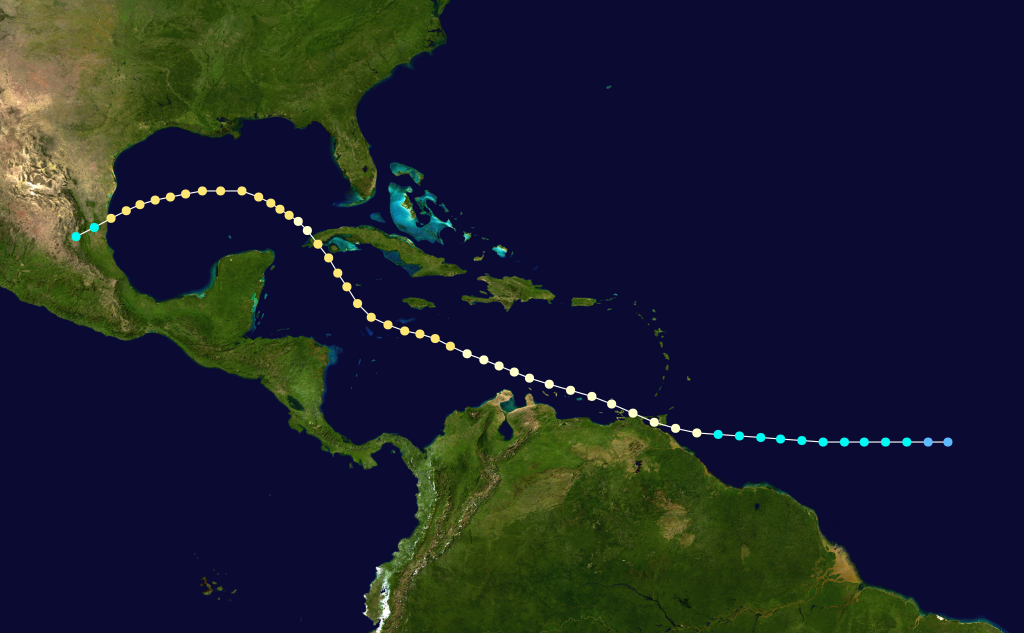 1933 Atlantic hurricane 2 track. Uses the color scheme from the Saffir-Simpson Hurricane Scale.